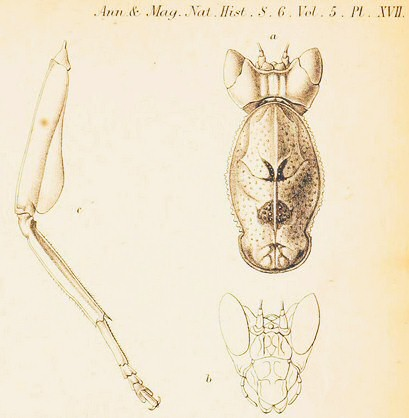 The original 1890 drawings of the flower mantis Parymenopus davisoni by James Wood-Mason (1846-1893) published in the Annals and magazine of natural history to accompany the type description of the species.